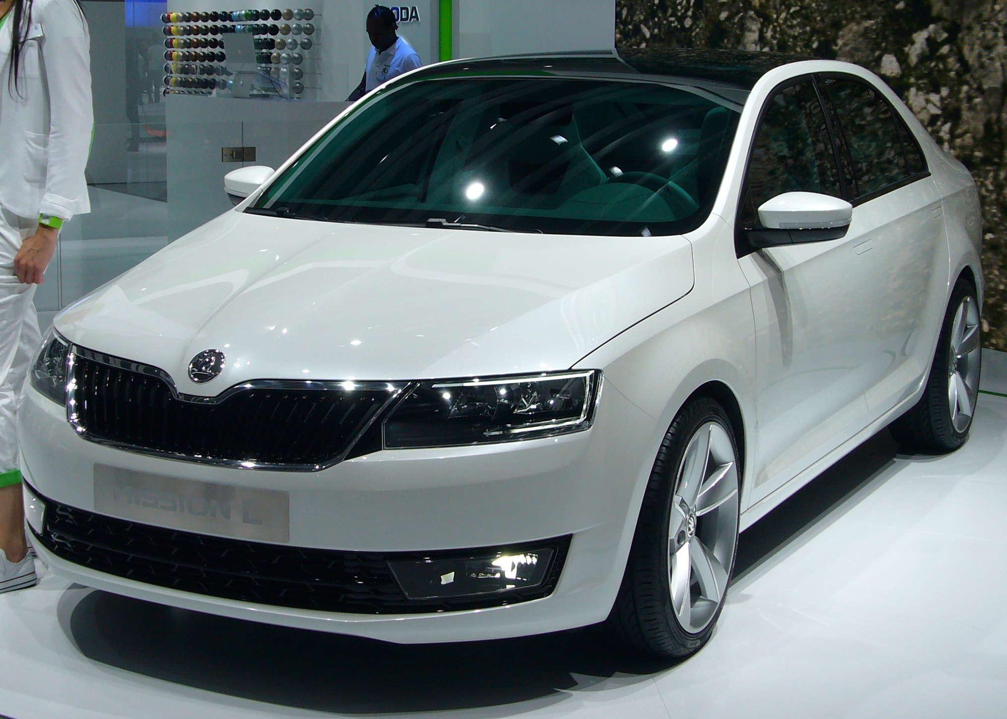 Škoda MissionL Concept at IAA Frankfurt 2011.